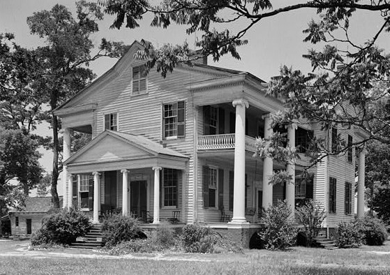 Athol, State Route 1114, Edenton vicinity (Chowan County, North Carolina) - cropped